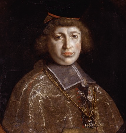 John from Lithuanian Dukes